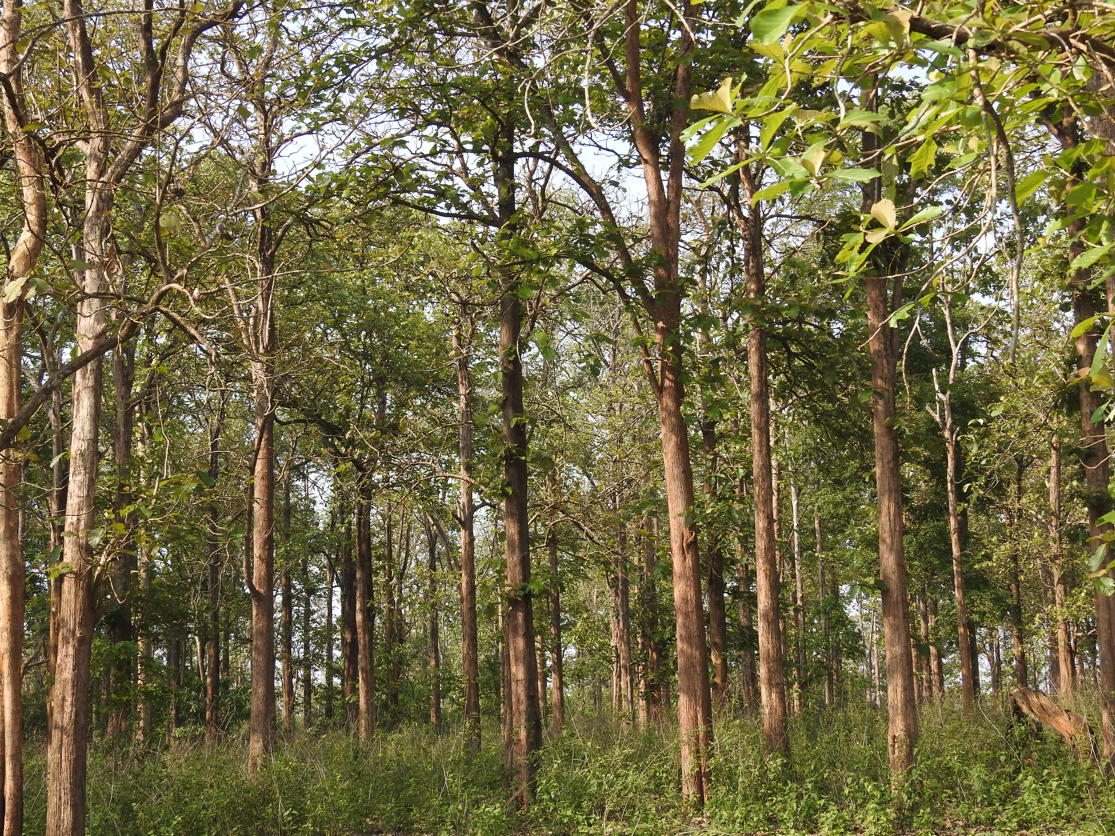 Teak (Tectona grandis) in a timber plantation stands unharvested in a protected area in Karnataka, India.